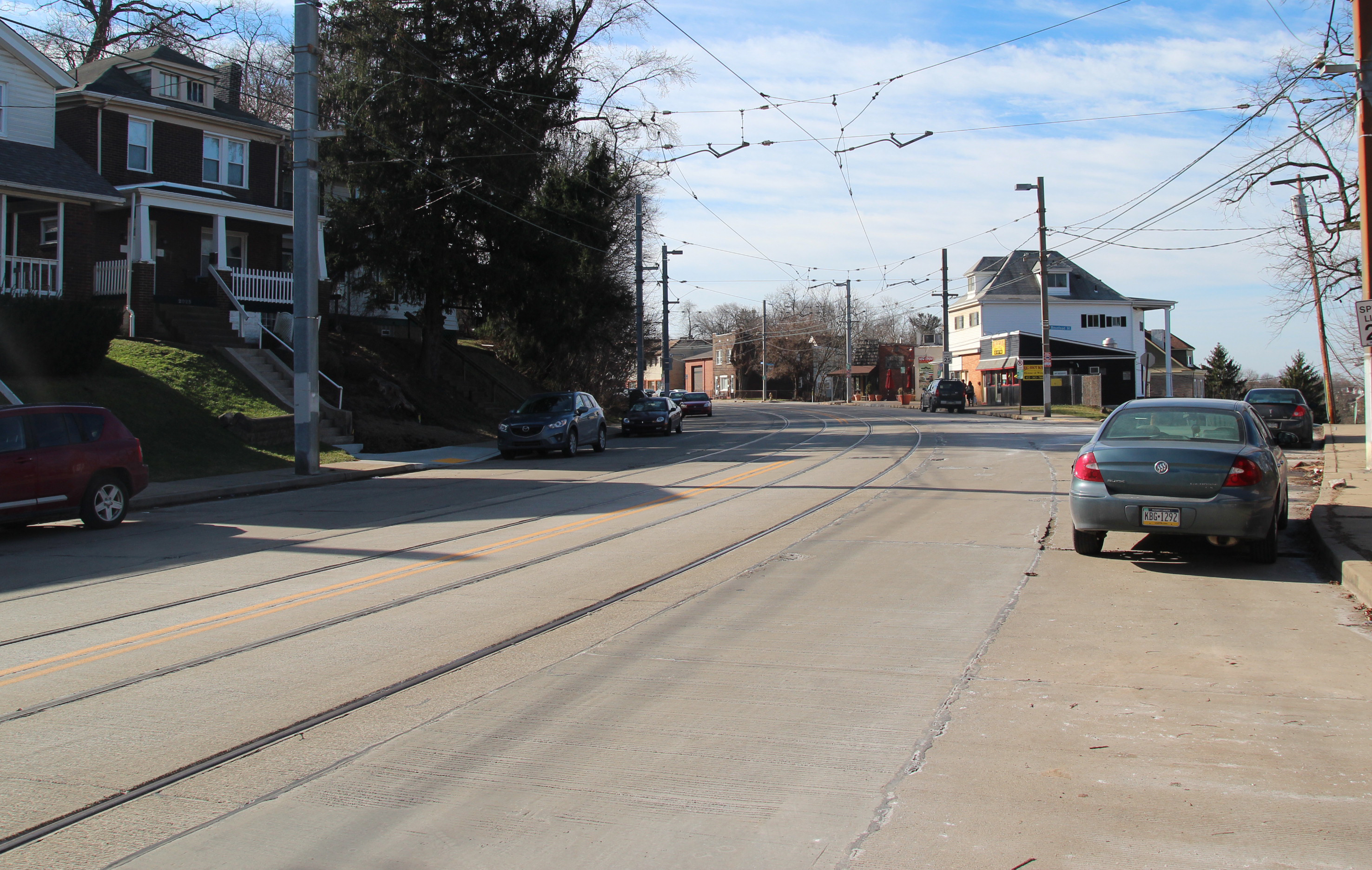 The location of the Boustead station, closed in 2012. Nothing remains except for the patch mark on the concrete, which is the former platform location.